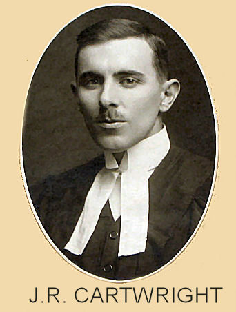 Date: 1920 Photographer: Park Bros Reference code: P1323